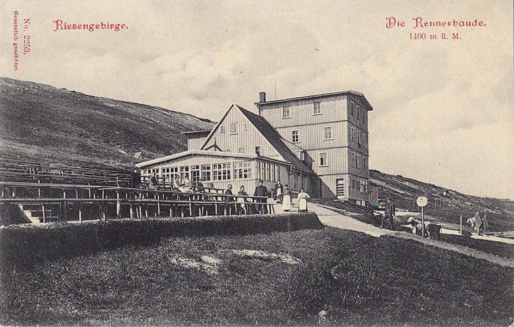 Renner huts